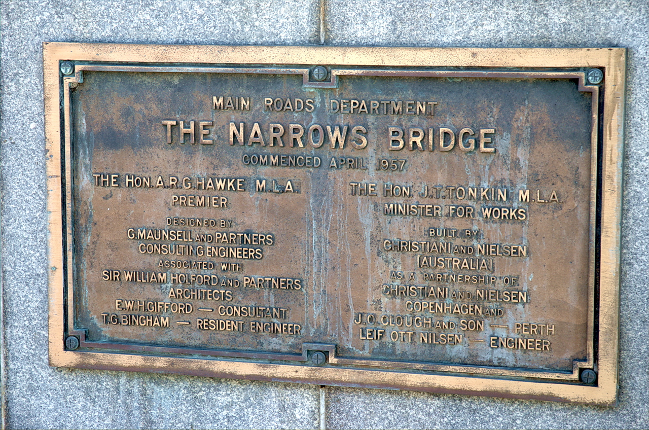 Narrows Bridge Plaque. Perth, Western Australia.